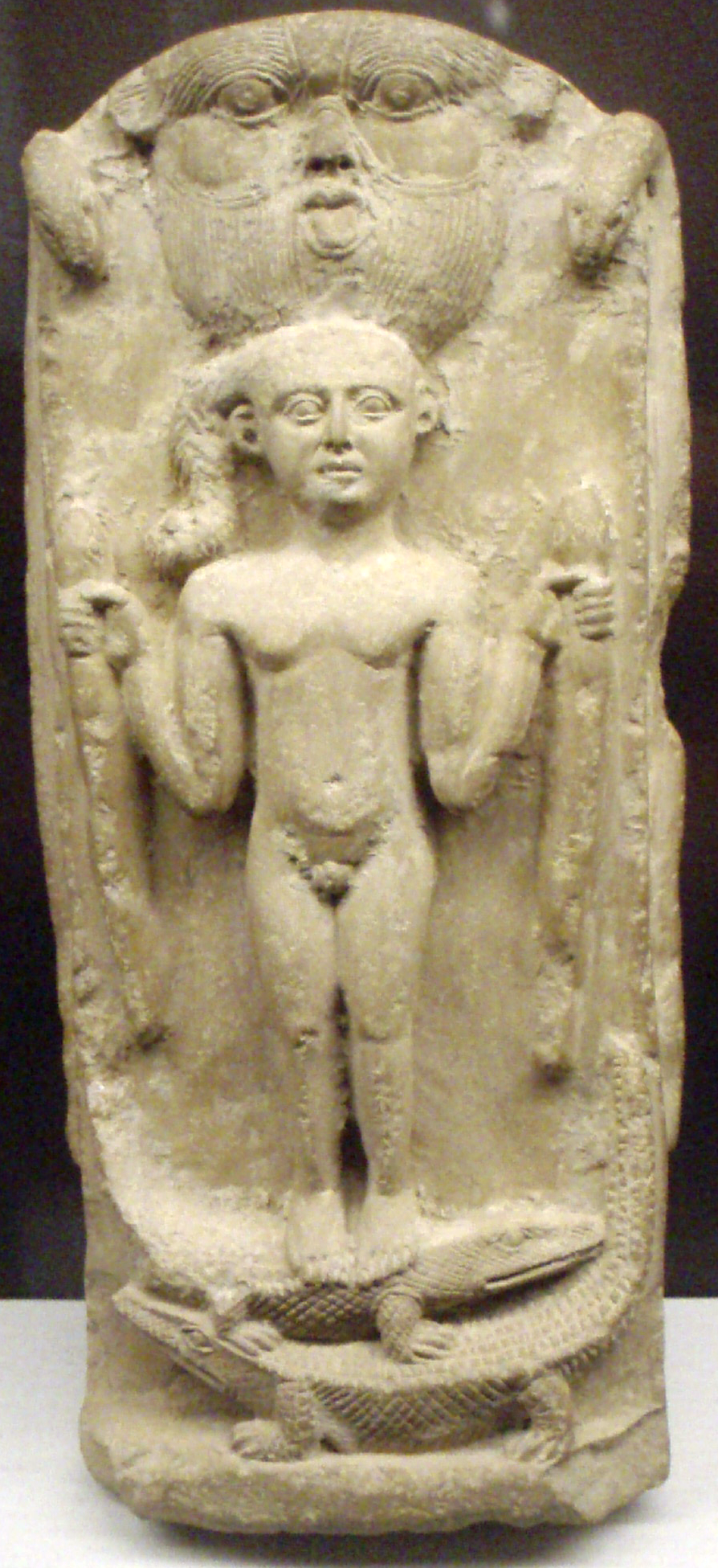 Cippus of a Horus as "Hor-sched", being watched over by the god Bes. from the Roman Period. RC 2991.